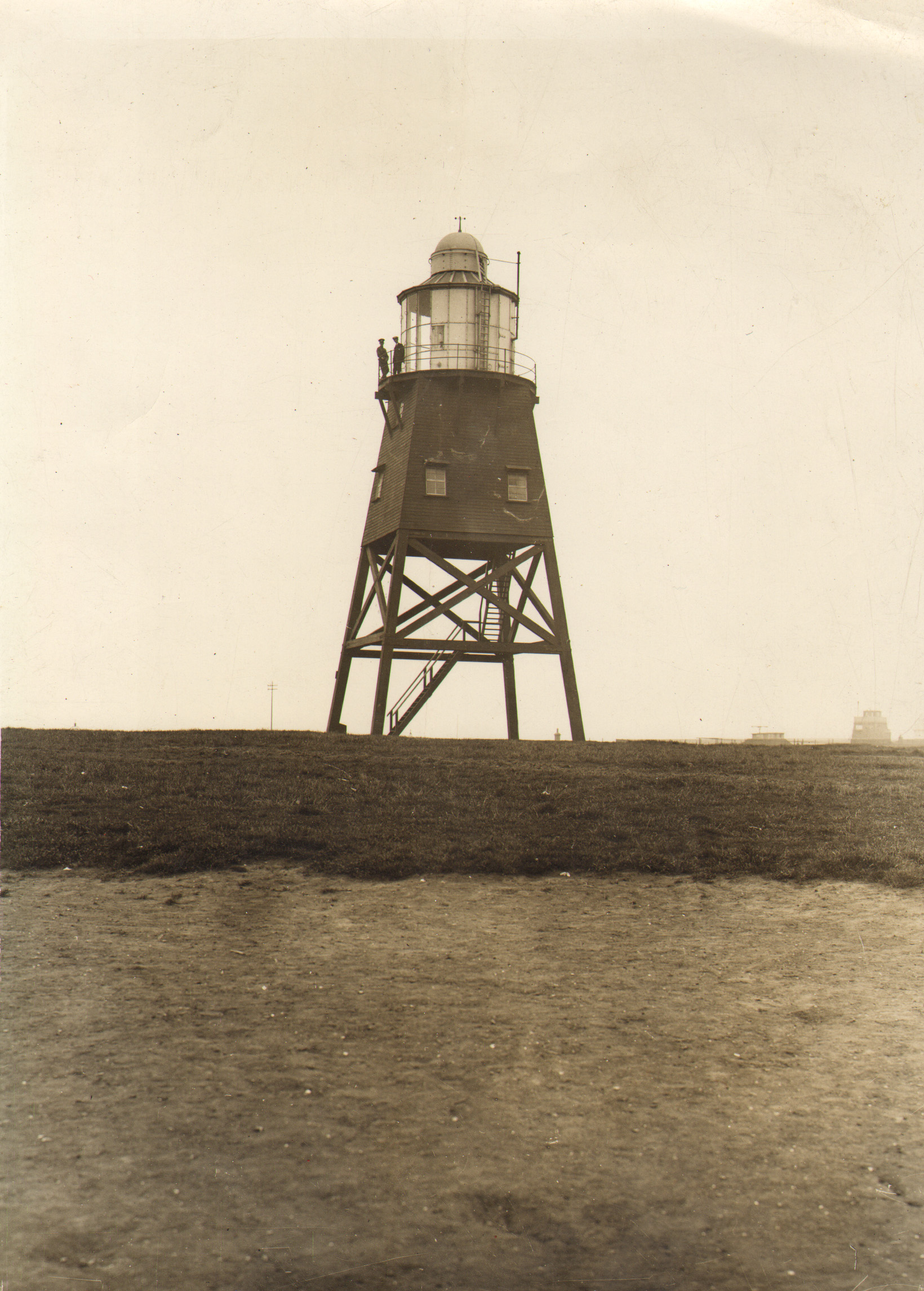 This is a photograph of a temporary lighthouse in Hartlepool. Built in 1847 the wooden tower was in service until June 14th 1927. On that day the new all electric, automatic Heugh light came into service. Photograph Collection No : 1827 Images from Hartlepool Cultural Services that are part of The Commons on Flickr are labeled 'no known copyright restrictions' indicating that Hartlepool Cultural Services is unaware of any current copyright restrictions on these images either because the copyright is waived or the term of copyright has expired. Commercial use of images is not permitted. Applications for commercial use or for higher quality reproductions should be made to Hartlepool Cultural Services, Sir William Gray House, Clarence Road, Hartlepool, TS24 8BT. When using the images please credit 'Hartlepool Cultural Services'.